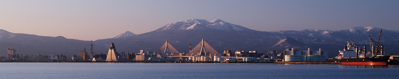 Port of Aomori with Mount Hakkoda as seen from the North in Japan.